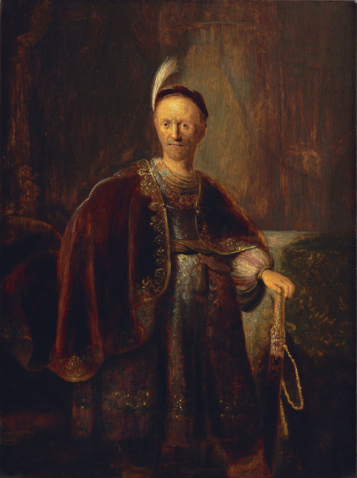 Portrait shows Rembrandt's father. The painting was identified by the BBC programme Fake or Fortune? as a work looted by the Nazis and was reattributed to Isaac de Jouderville.